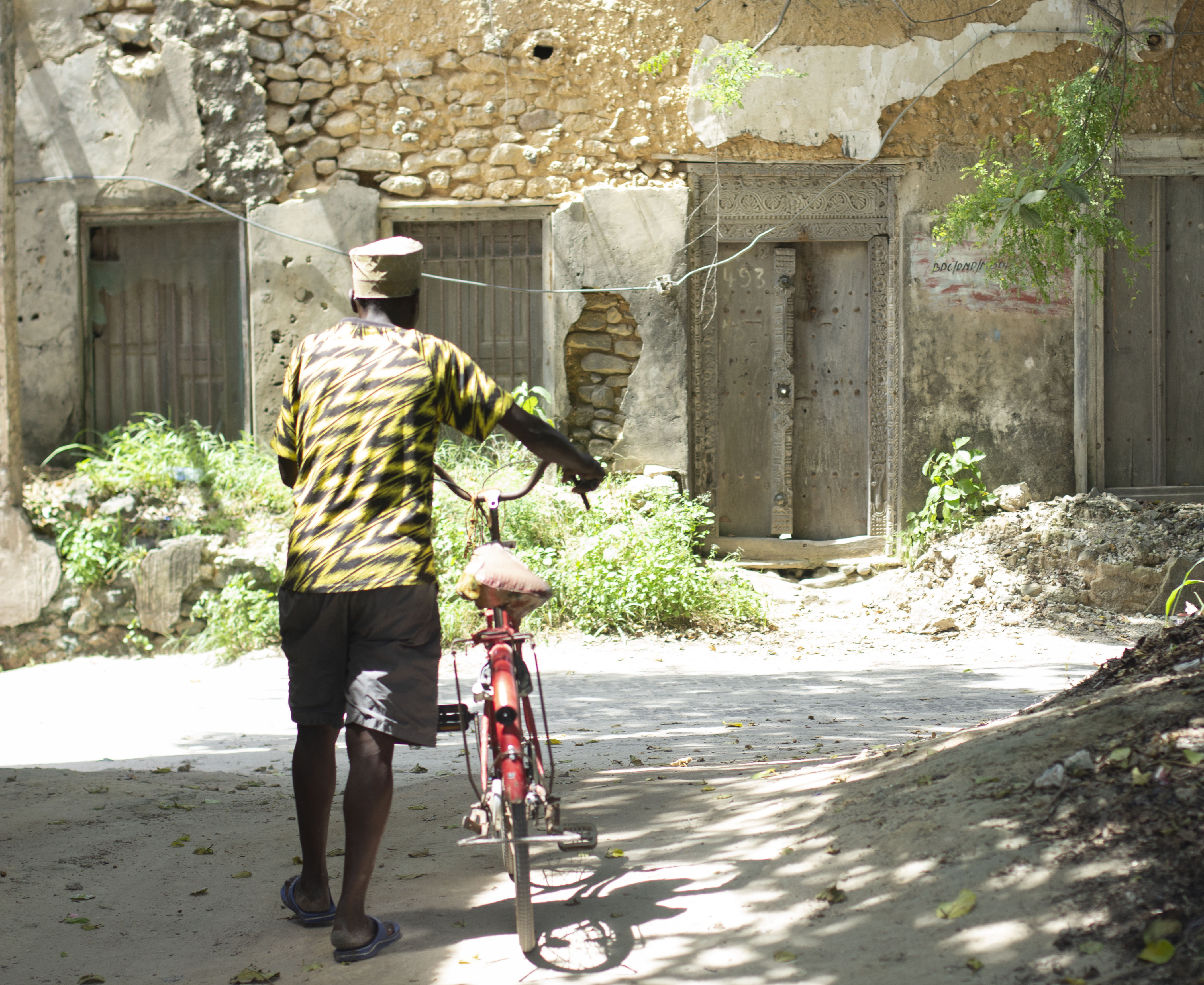 This photo has been taken in the country: Tanzania